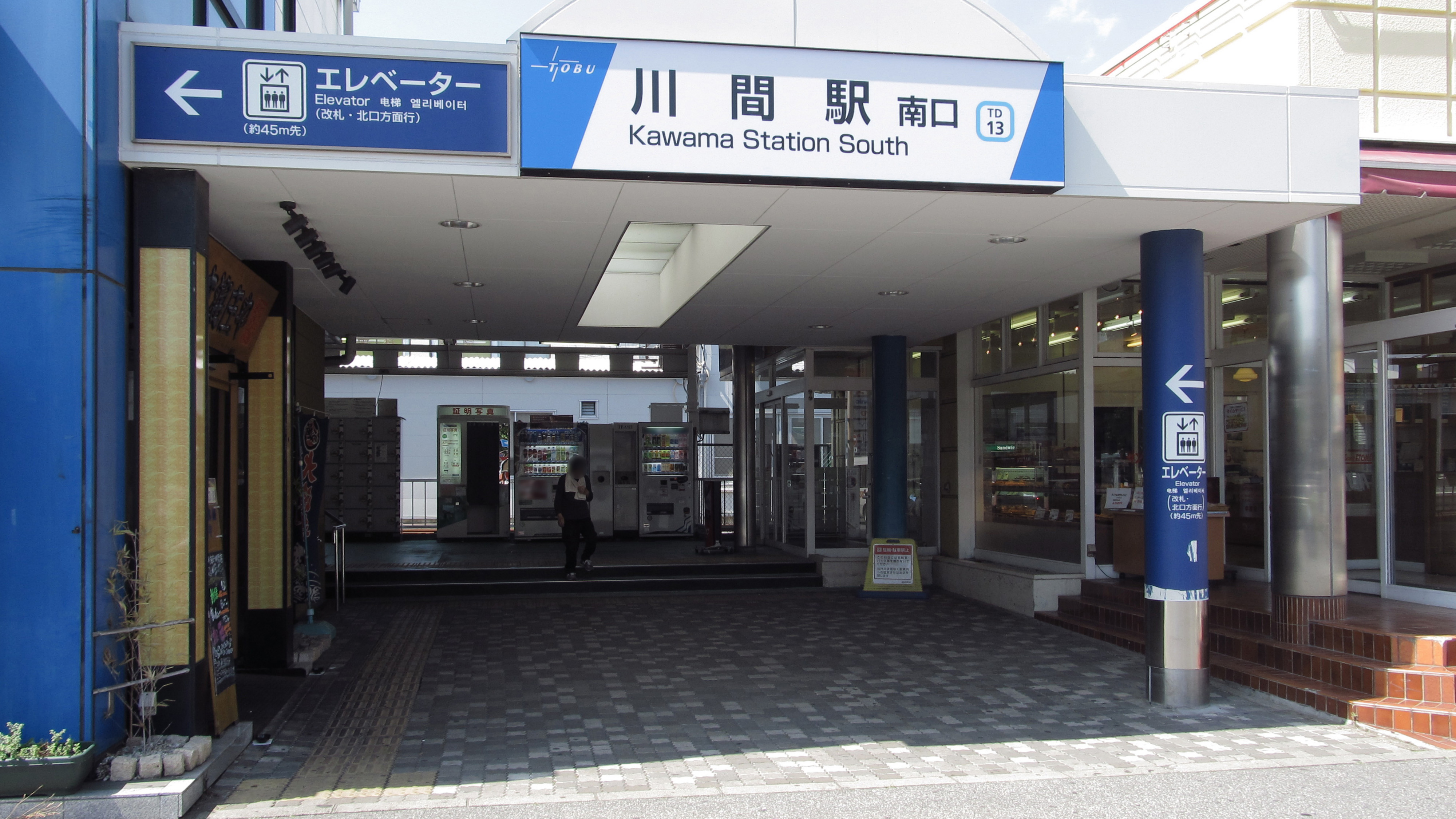 The south entrance of Kawama Station on the Tōbu Noda Line in Noda city, Chiba prefecture, Japan